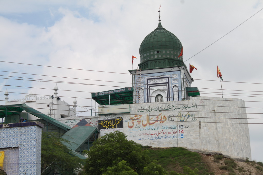 Shrine of Baba Kamal Chishti This is a photo of a monument in Pakistan identified as the PB-P-49